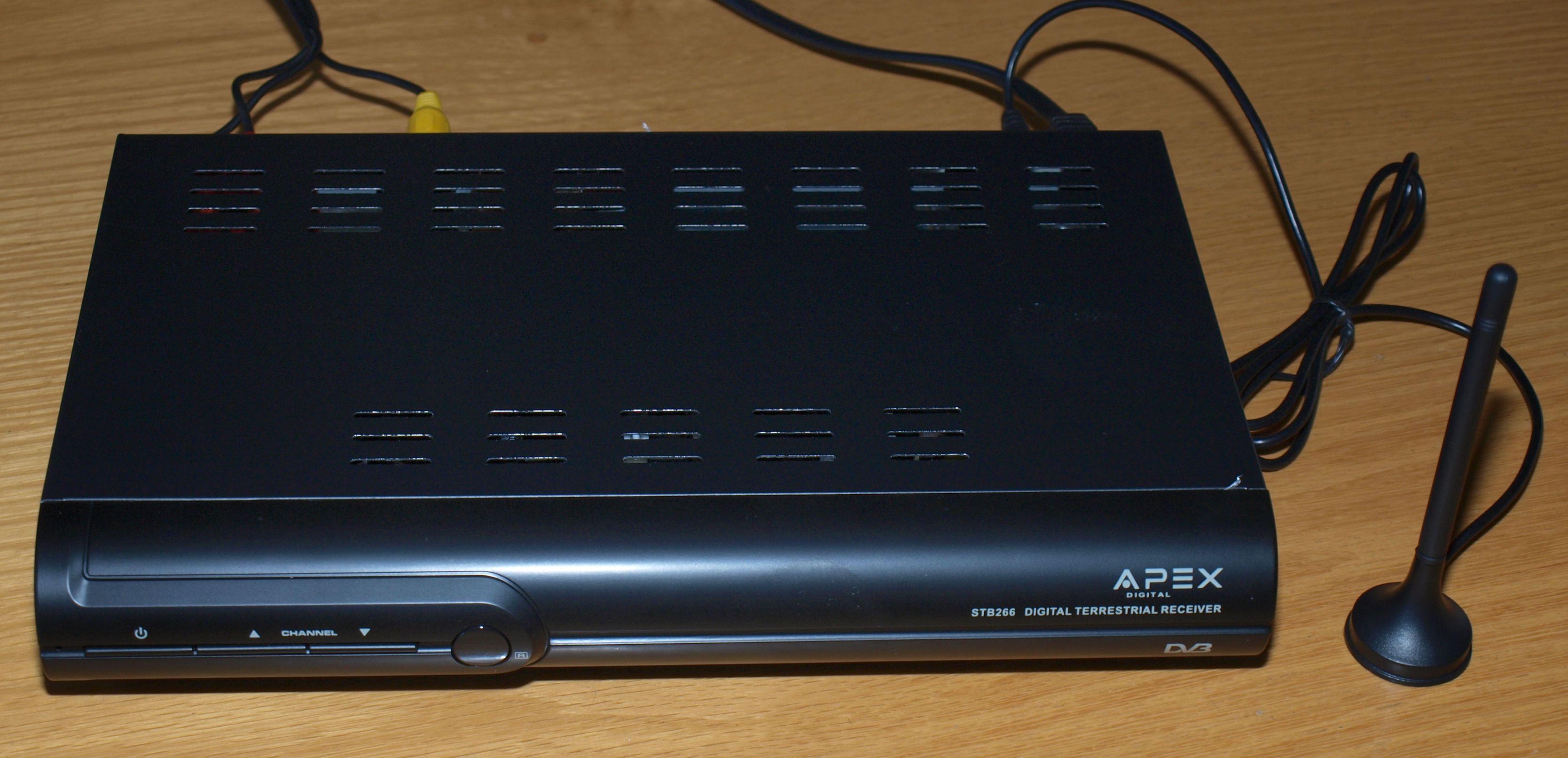 DTT Reciever - Apex